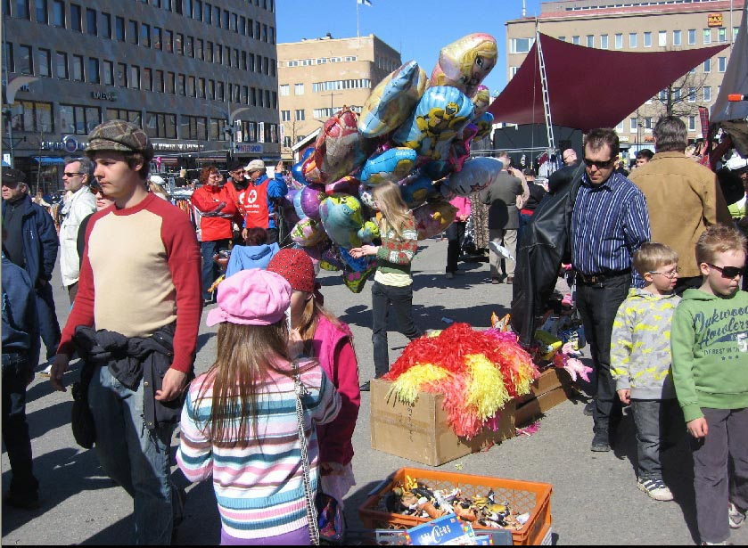 Joensuu market place, Joensuu, Finland